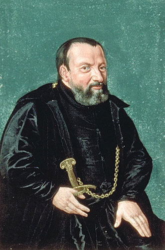 Markus Beck von Leopoldsdorf, Ritter since 1530